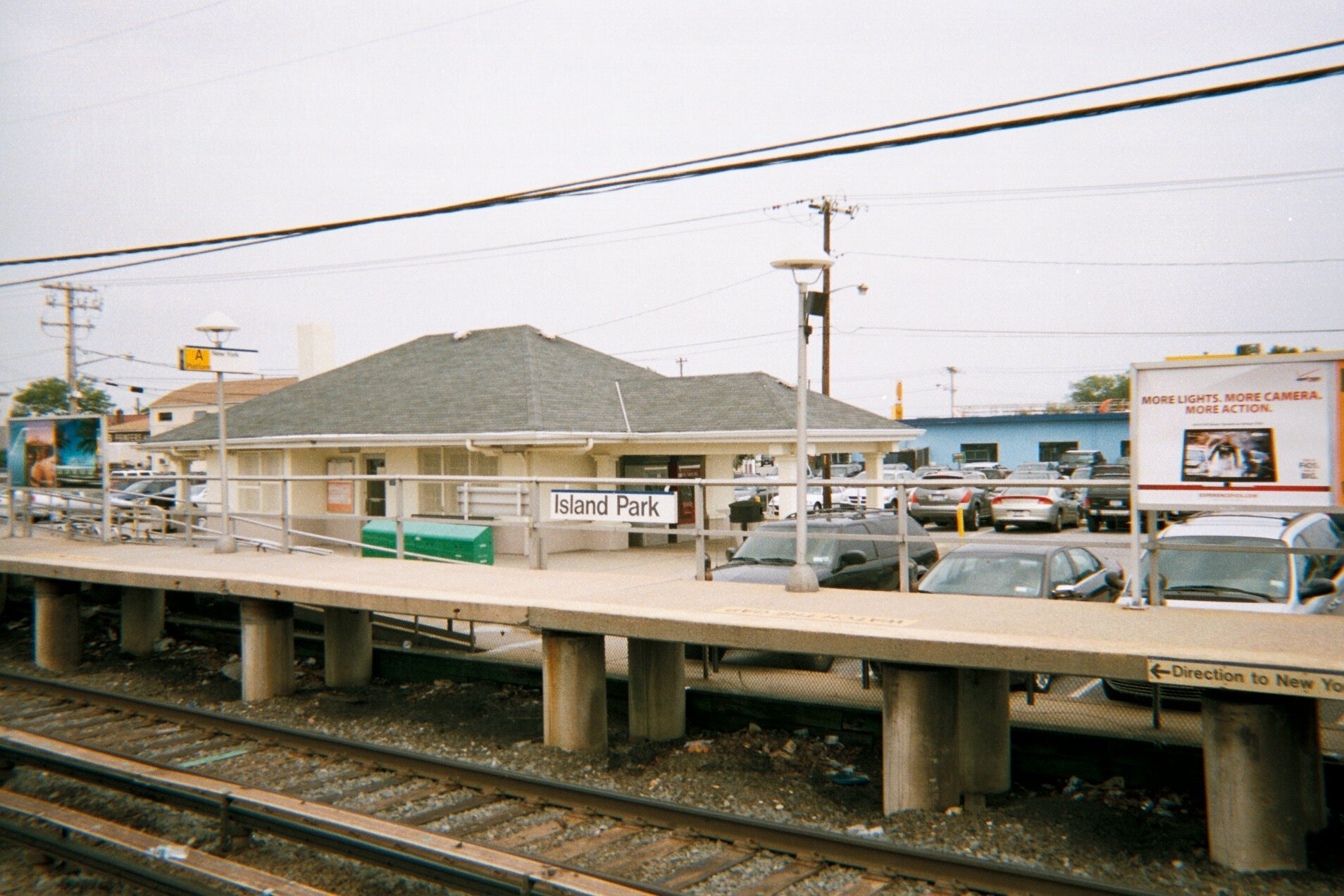 Image of station house at Island Park (LIRR station) from the end of the southbound platform. The sides used to be blue, but unfortuatley, that's not true anymore.